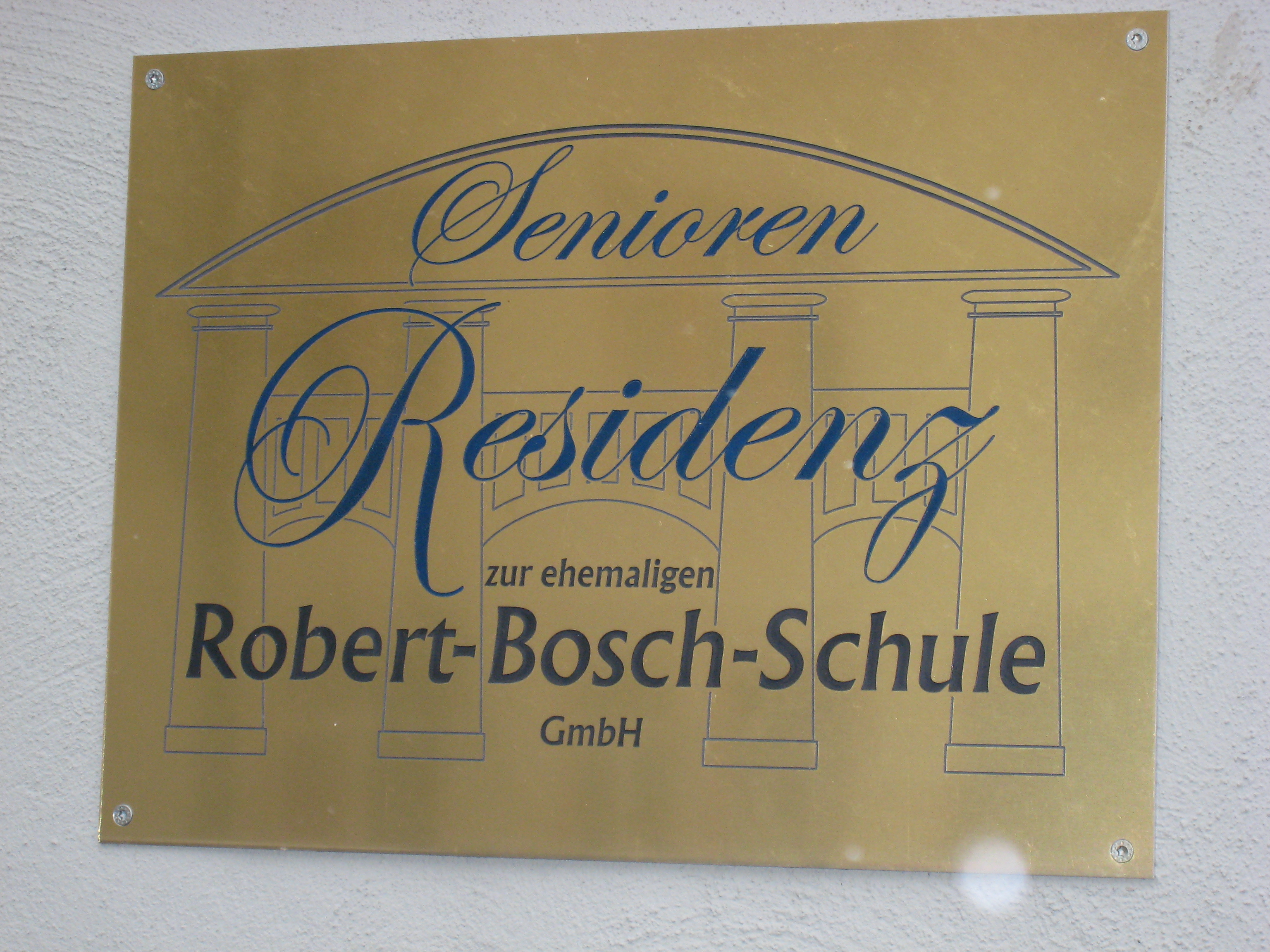 Former Polytechnikum Arnstadt, Kasseler Strasse 10, then Robert-Bosch-Schule, now old people's home